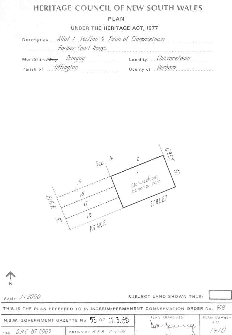 Clarence Town Courthouse: PCO Plan Number 558